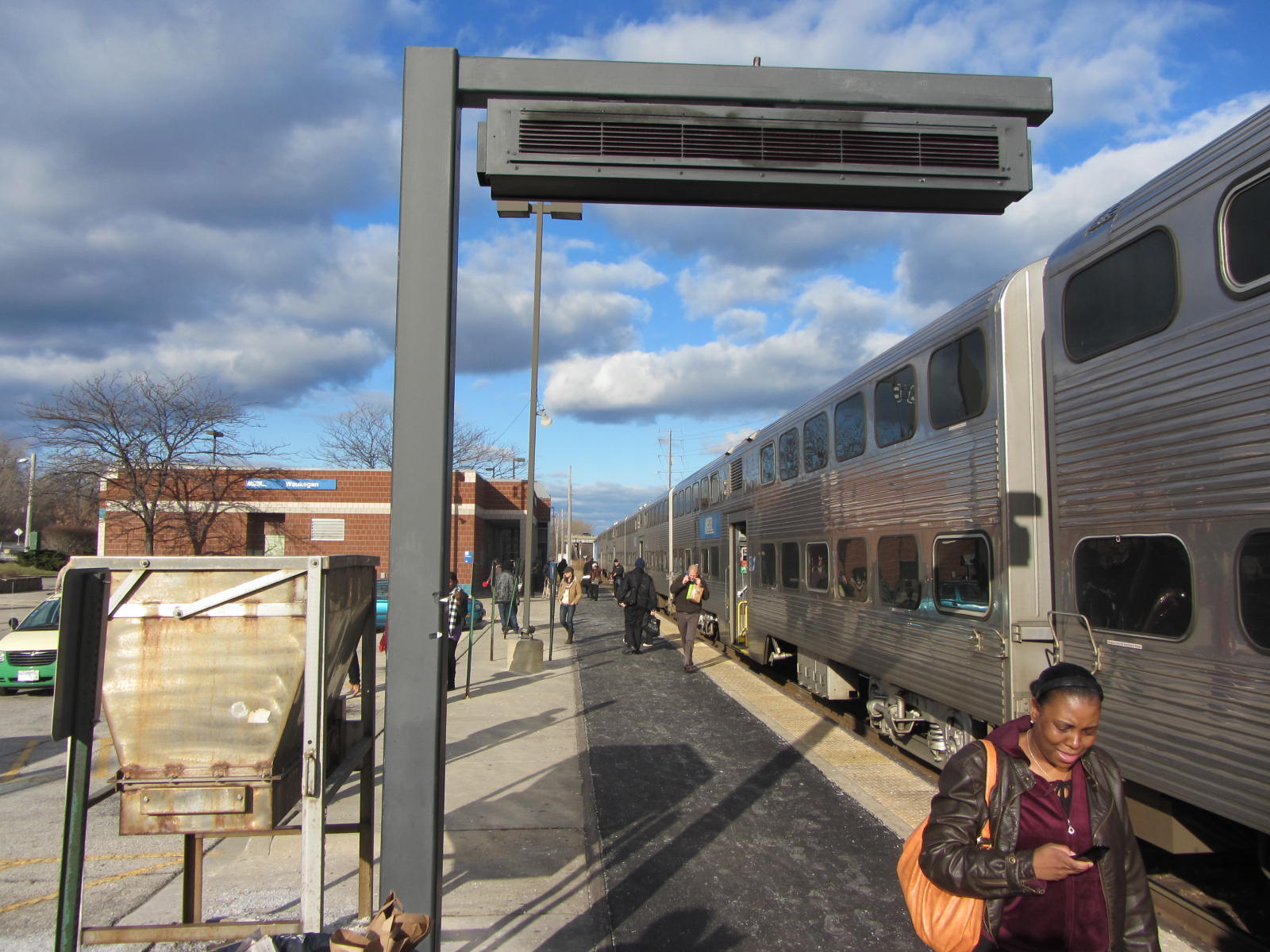 Metra Union Pacific Waukegan, Illinois